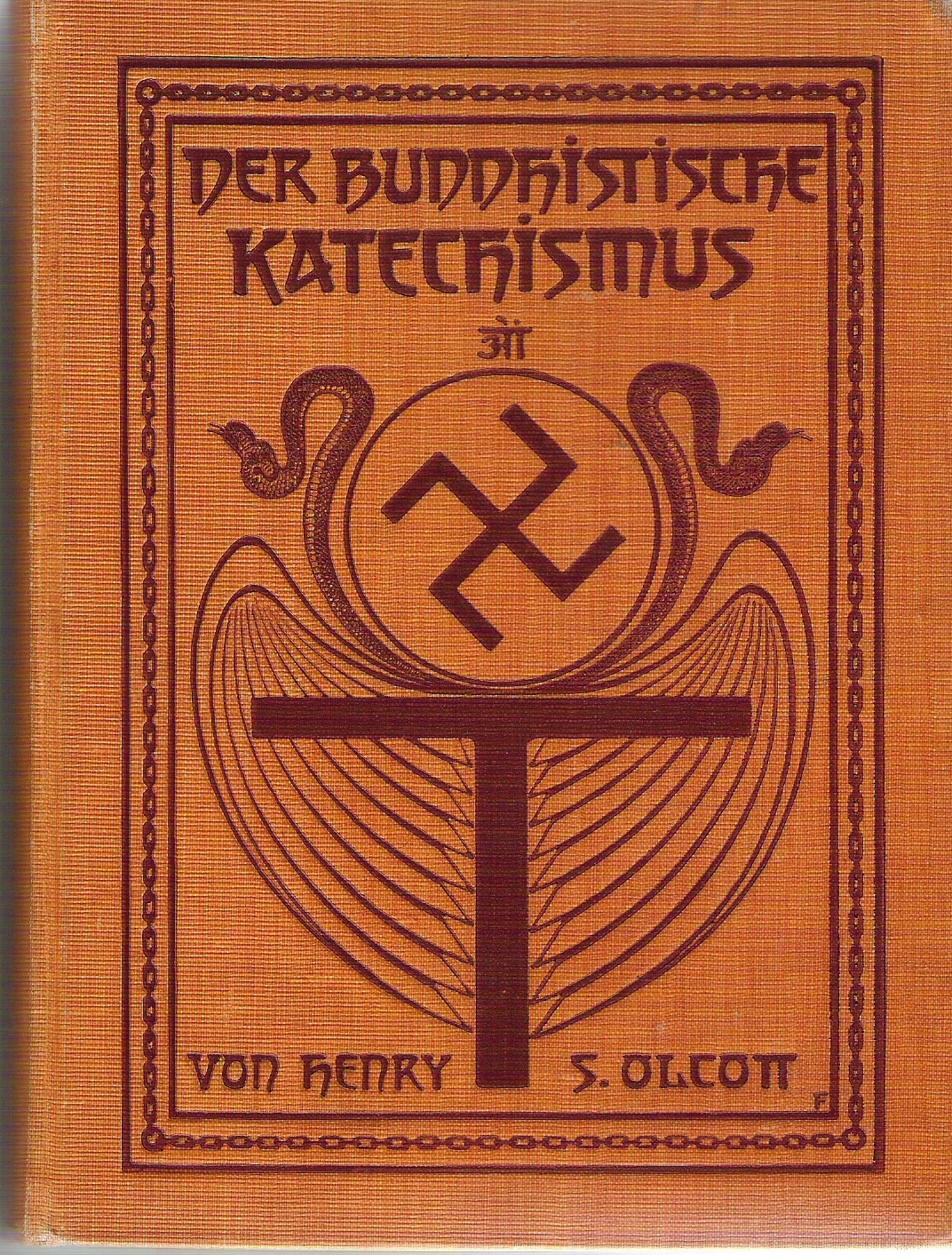 Der Buddhistische Katechismus, Henry S. Olcott, 35th edition (German) Photograph by Gakuro